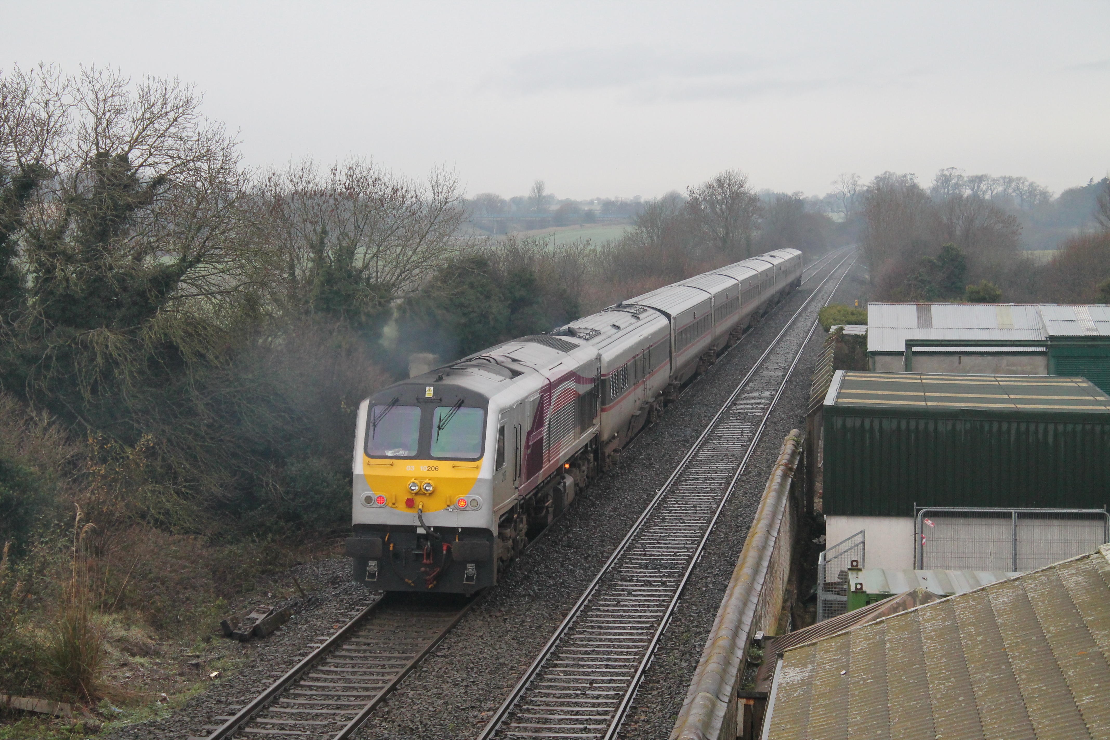 206 and 9001 at Moira with a Southbound Enterprise.